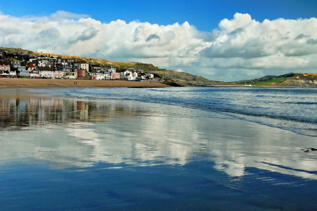 Seafront Reflections ~ Lyme Regis Shot taken around noon in early November ... ebbing tide reflecting the town of Lyme Regis with Charmouth and Golden cap to the right. keywords: Lyme Regis, dorset, reflections, sand, water, cottages, hotels, Marine Theatre, Charmouth, Golden Cap